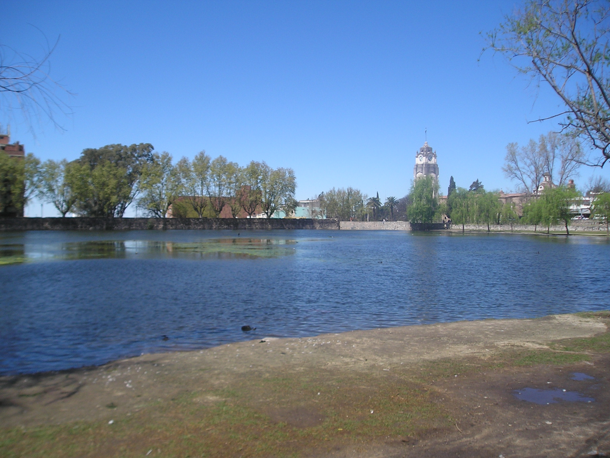 Alta Gracia, Argentina - a tajamar (reservoir) and a clocktower in the background